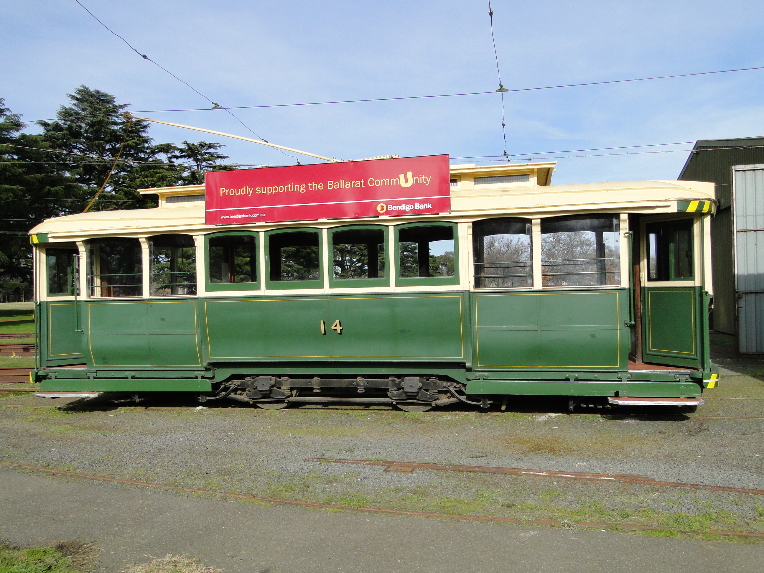 Side view of Ballarat Tram No. 14, formerly Geelong Tram No. 29, built in 1915 for the Prahran and Malvern Tramway Trust.